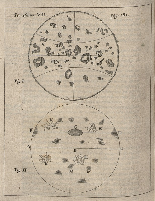 Original image description from the Deutsche Fotothek Astronomie & Physik & SonneIllustration of sunspots drawn by 17th-century German Jesuit scholar Athanasius Kircher